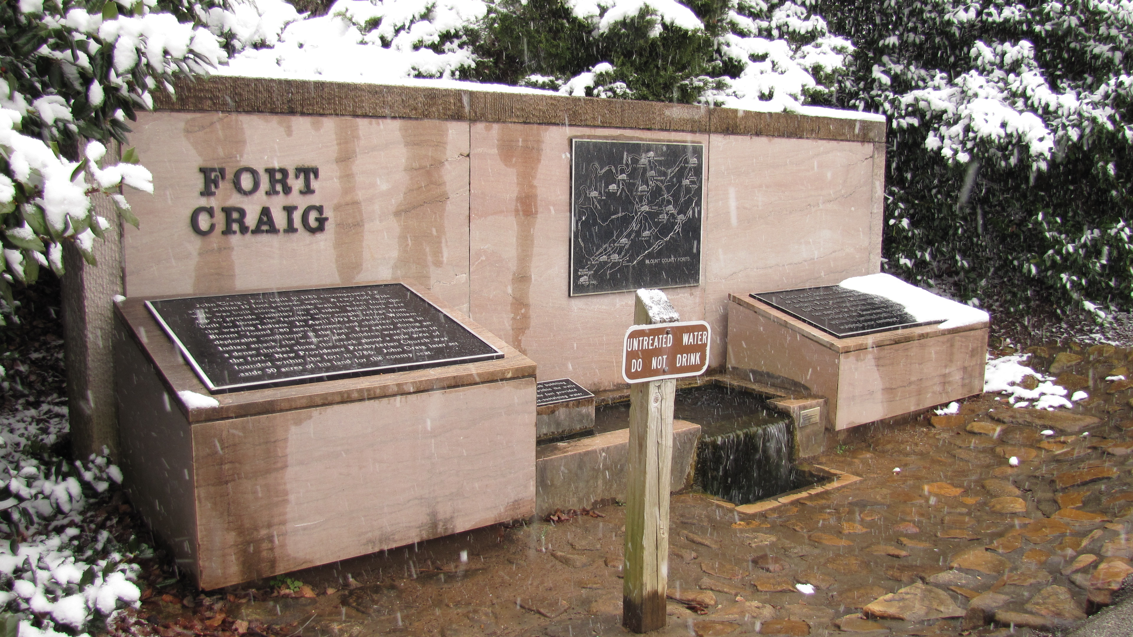 Monument marking the site of Fort Craig, located in Greenbelt Park in Maryville, Tennessee. The fort was built by Revolutionary War veteran John Craig in 1785 to protect early Blount County settlers from sporadic Cherokee attacks. Craig donated the initial 50 acres for the construction of Maryville's first town square.